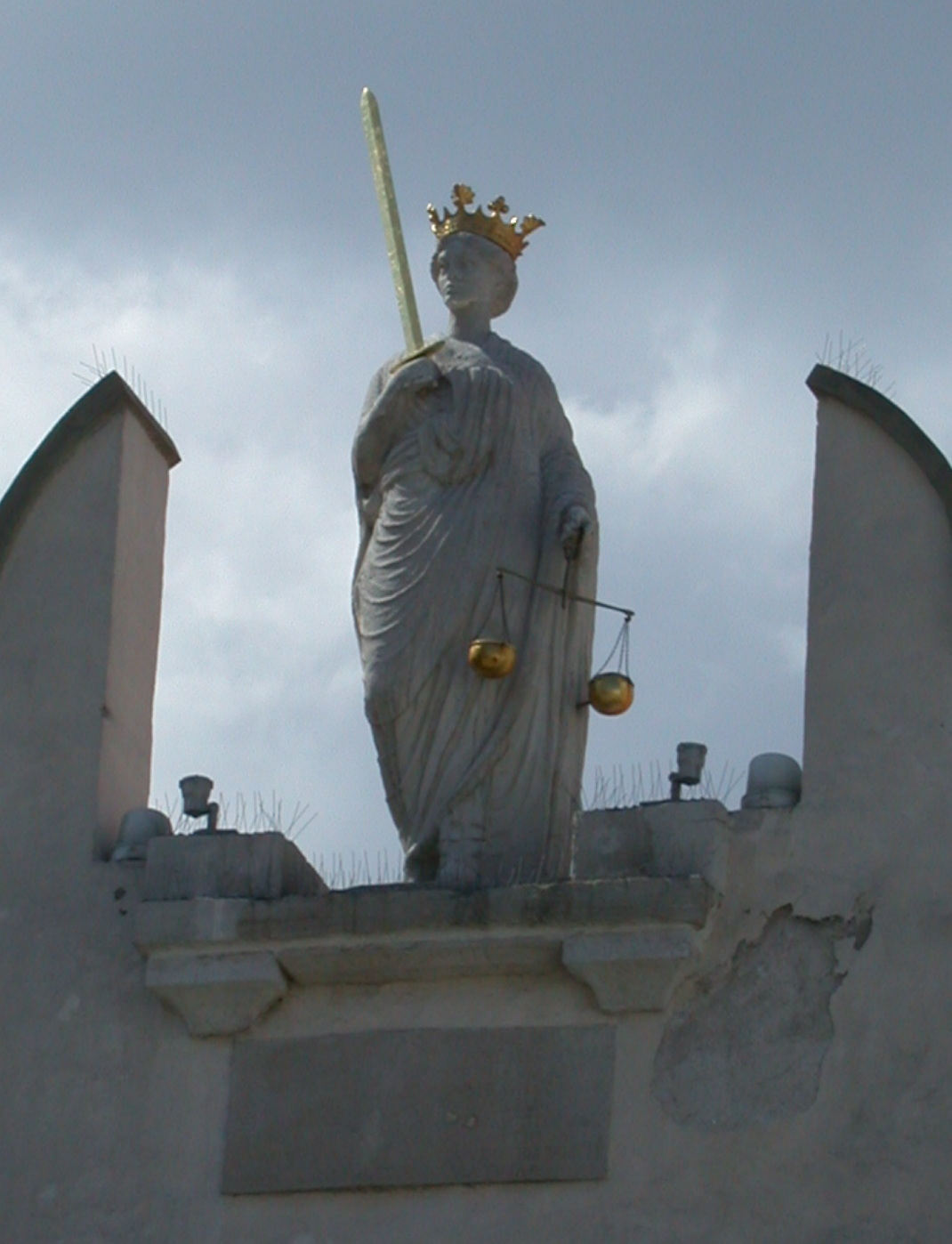 Statue on Top of the Palazzo Pretorio in Koper.